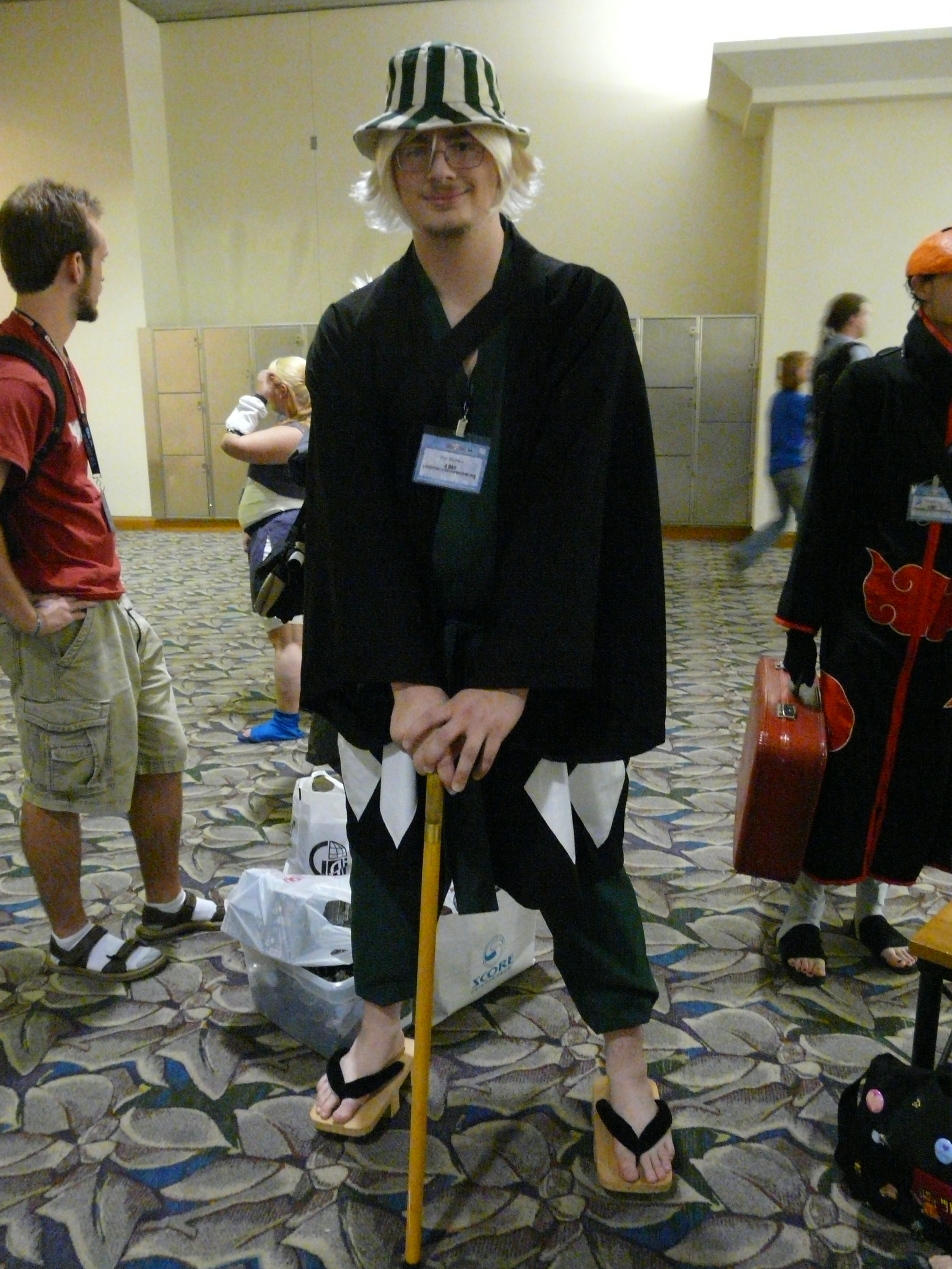 Picture of Gen Con Indy 2008 in Indianapolis, Indiana, USA.